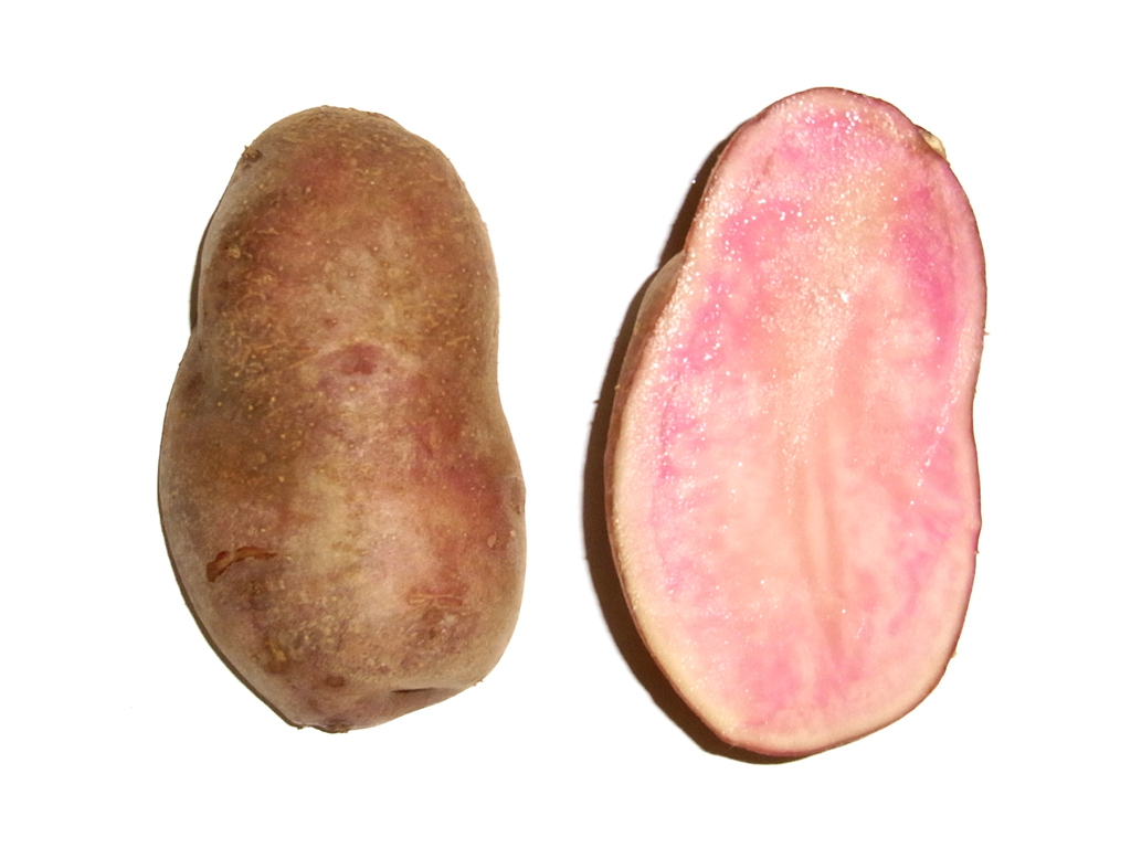 Northern ruby.